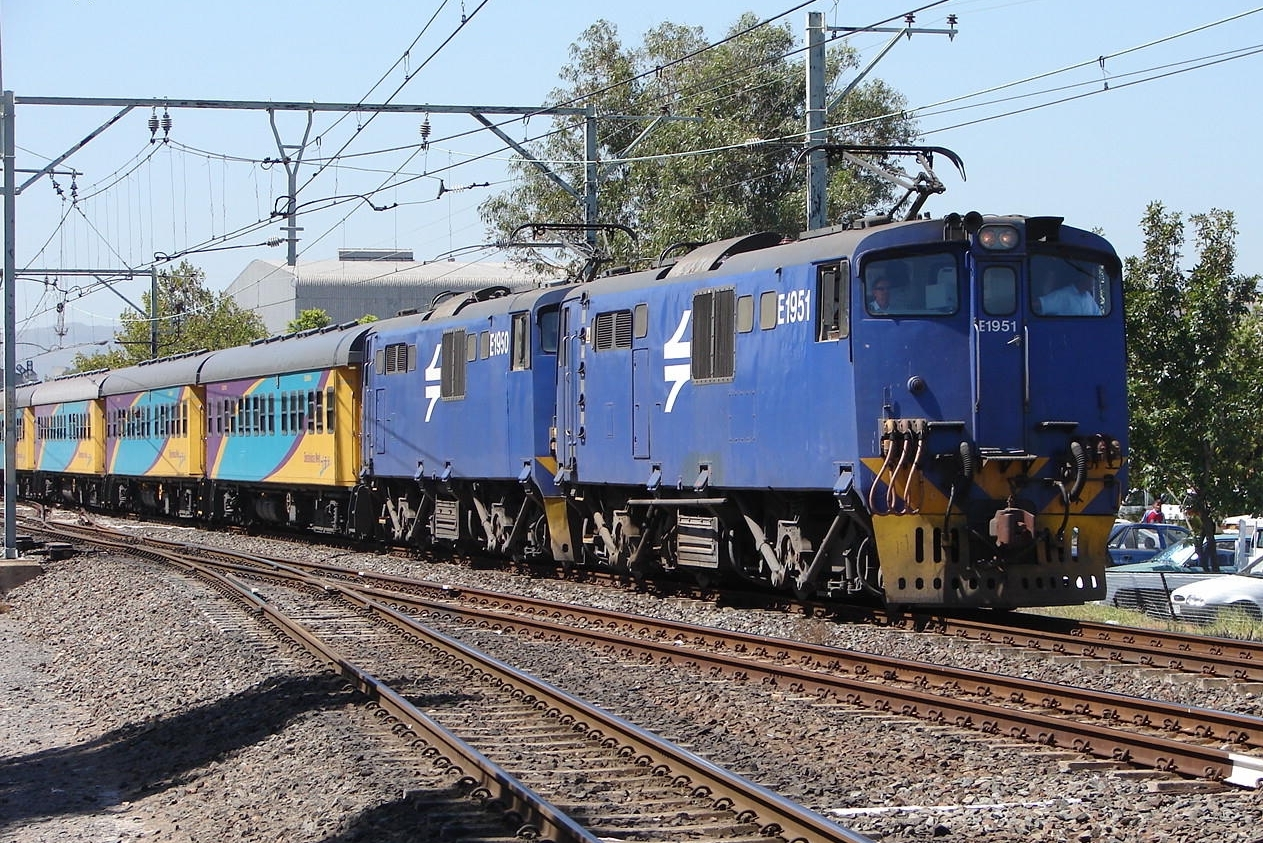 SAR Class 6E1 Series 8 E1951. Location: Between Stikland and Bellville, Cape Town. Rebuilding: E1951 re-entered service in 2013 after being rebuilt to Class 18E 18-741